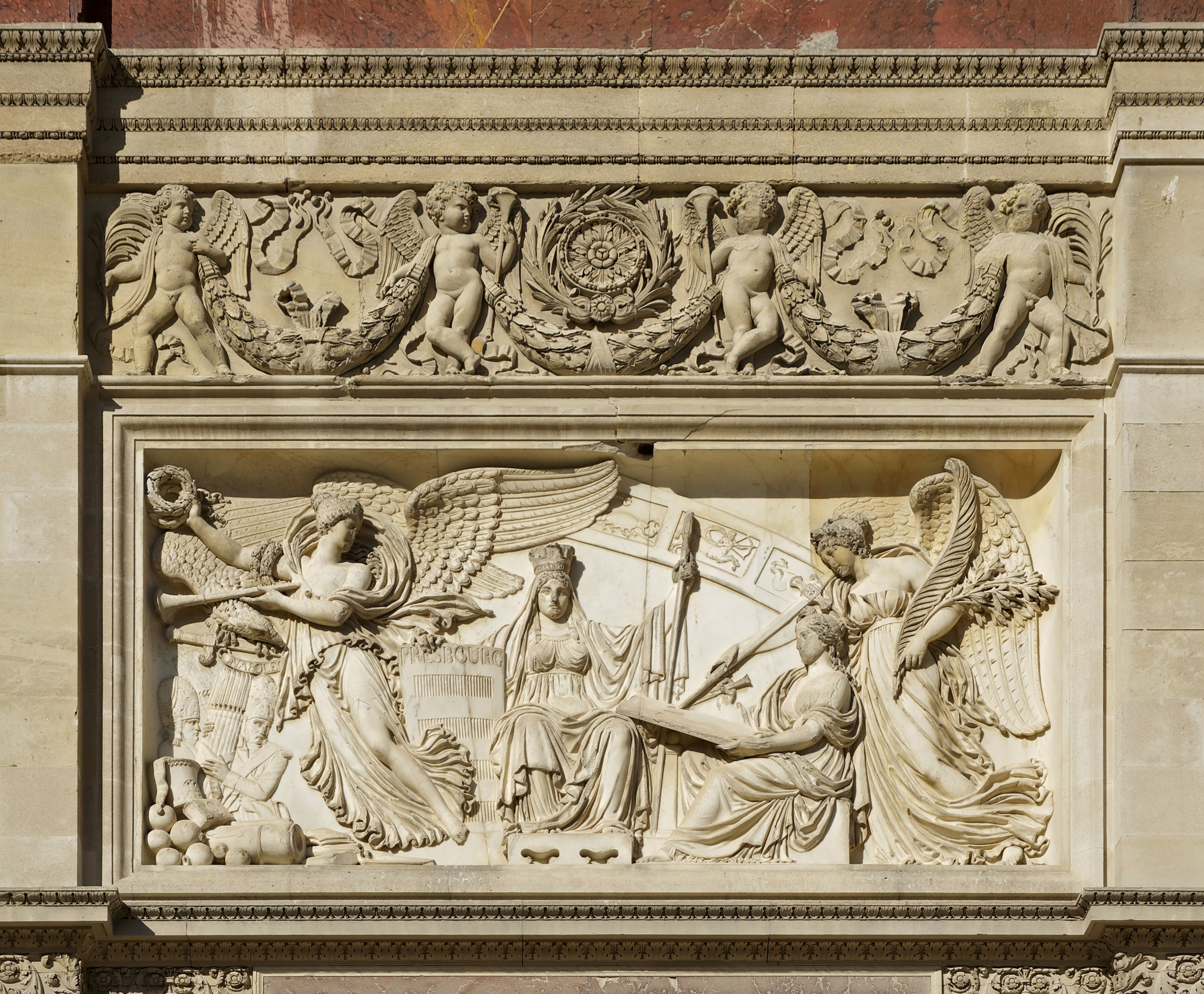 Relief on the south facade of the Arc de triomphe du Carrousel, depicting the Peace of Pressburg, Paris. By Jacques-Philippe Le Sueur.